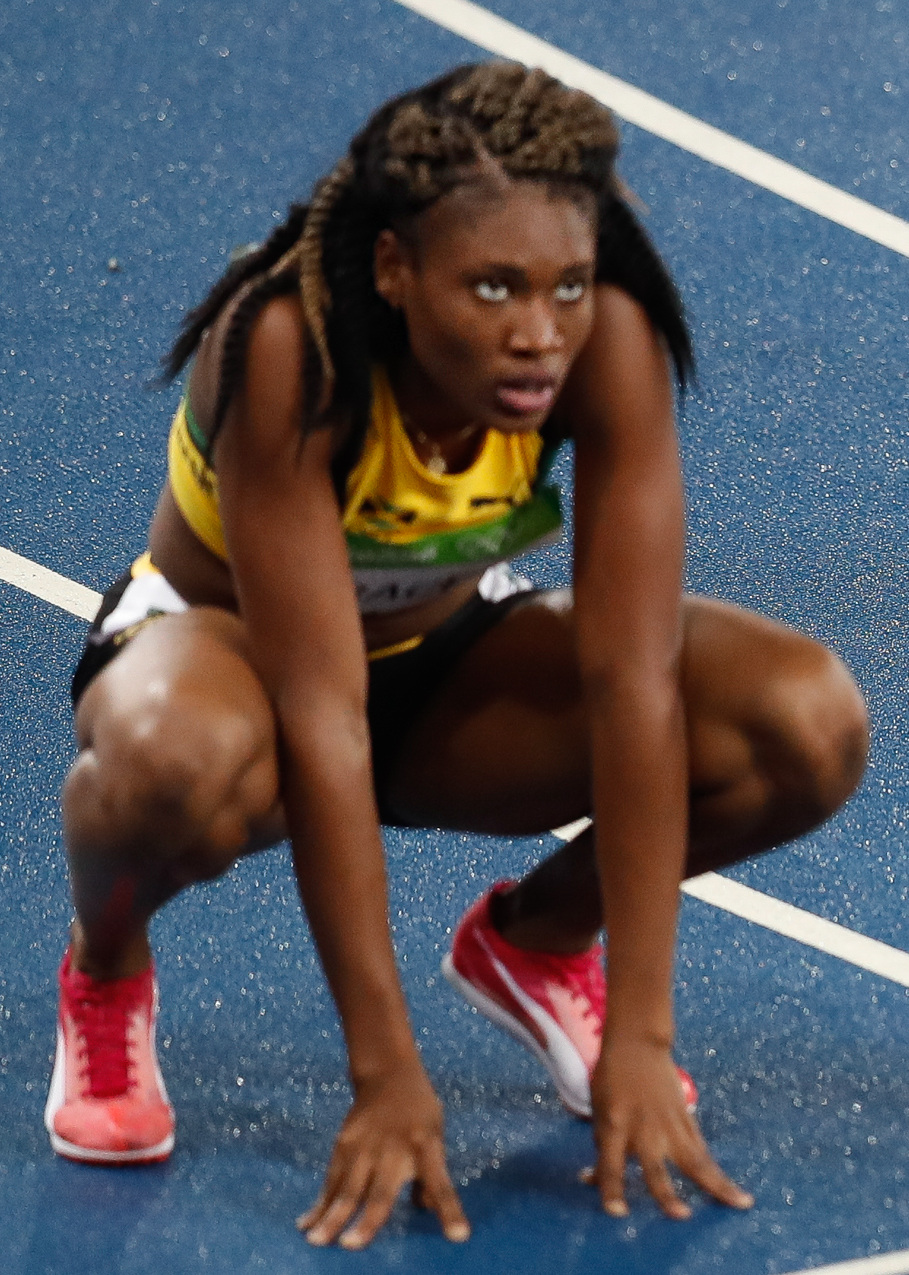 Rio de Janeiro - Ashley Spencer, dos Estados Unidos, desaba no chão ao ver que ficou com o bronze nos 400m com barreiras nos Jogos Rio 2016, no Estádio Olímpico. (Fernando Frazão/Agência Brasil)